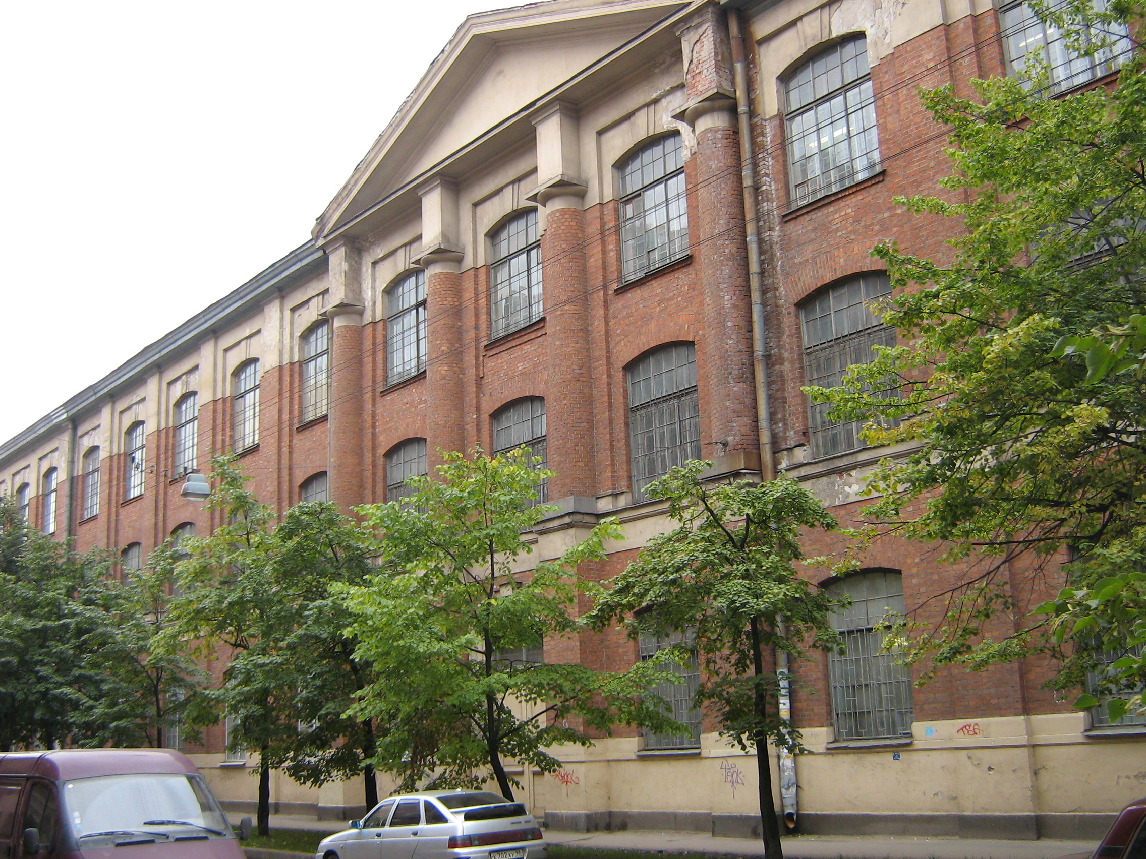 "Pechatnyi Dvor" (State Typography) in Saint Petersburg. View from Gatchinskaya Street.